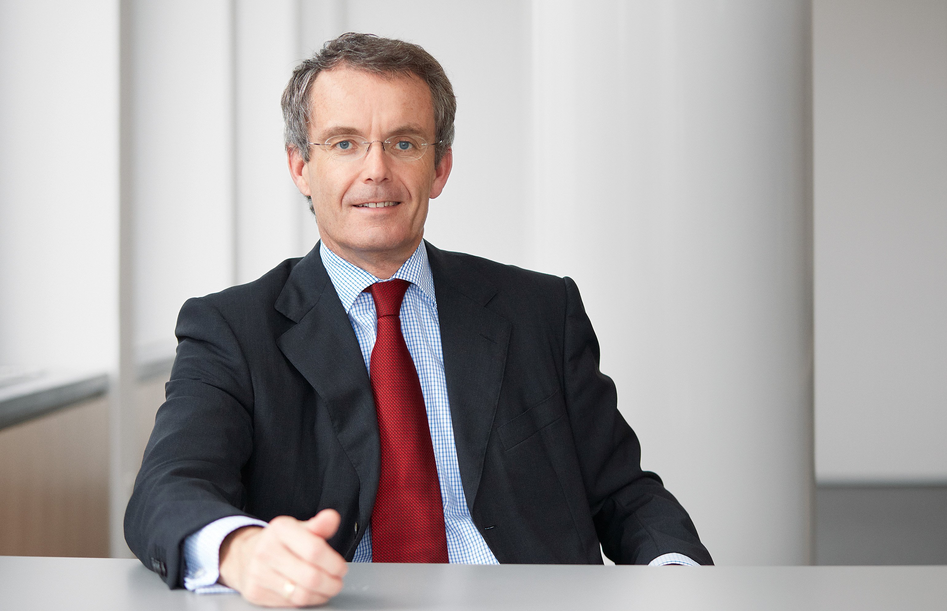 Dr. Bernd Scheifele. Chairman of the executive board HeidelbergCement AG